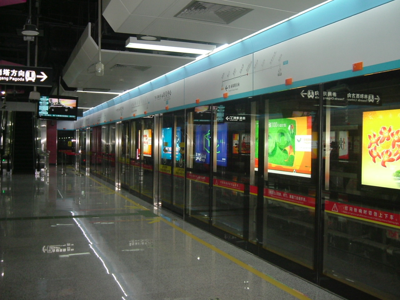 Guangzhou_Women_and_Children's_Medical_Center_Station_Platform